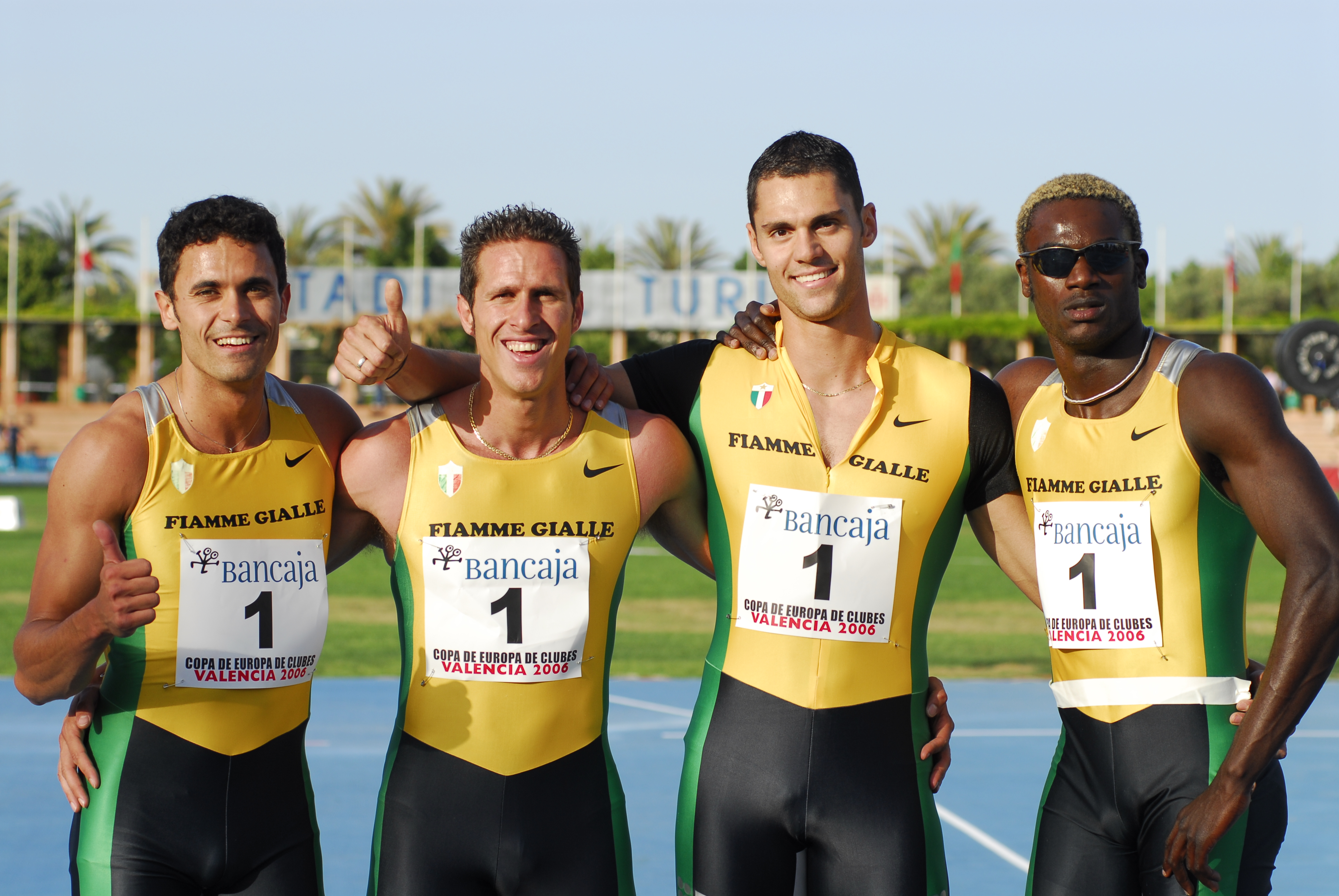 Nationa Record Relay (Stefano Dacastello, Massimiliano Donati, Stefano Anceschi and Koura Kaba Fantoni)